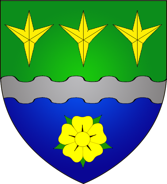 Coat of arms of the municipality of Boulaide, Luxembourg